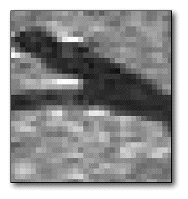 Magnified view from an ultrasound liver scan. Generated by Kieran Maher using ImageJ.